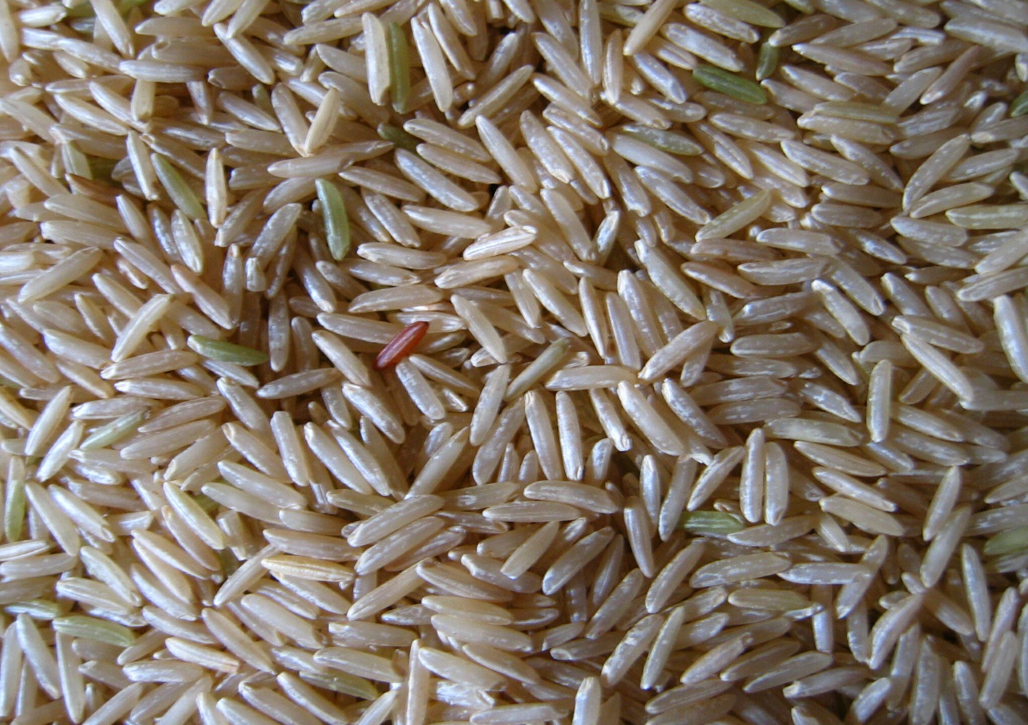 Closeup of brown basmati rice. It has been known to help prevent heart disease.